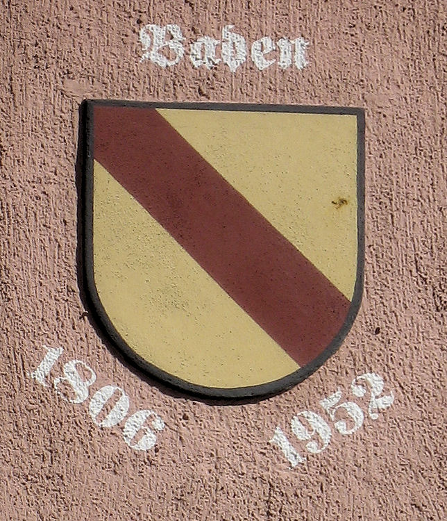 Baden's coat of arms at the Breisach town hall